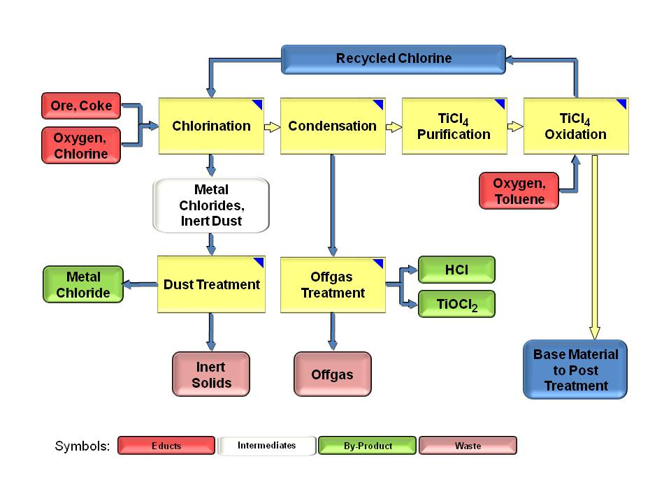 The Chloride Process for producing TiO2 by Ti-Cons